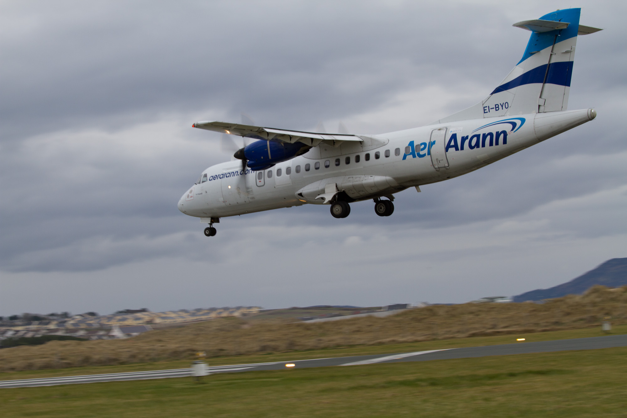 Aer Arann EI-BYO ATR ATR-42-300 landing at Sligo Airport.